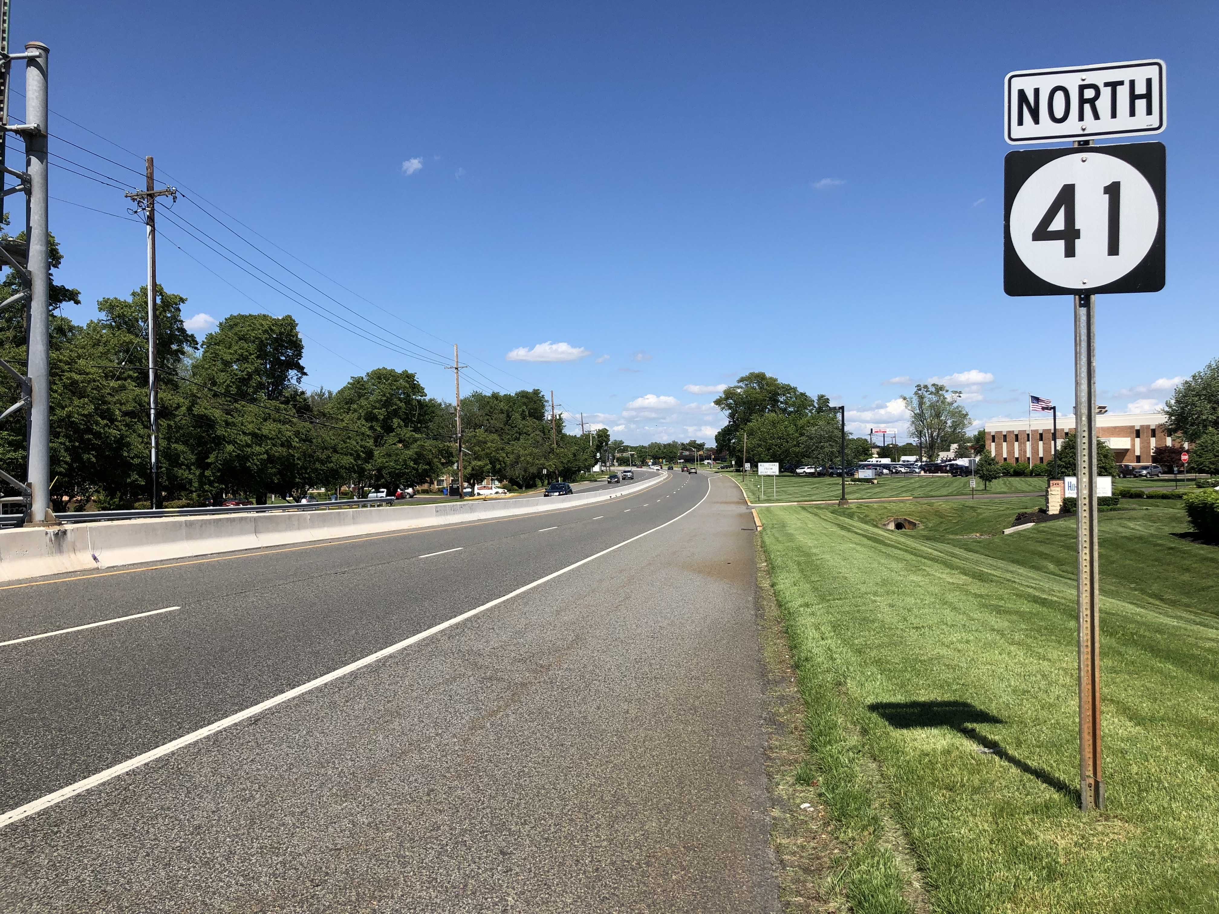 View north along New Jersey State Route 41 (Kings Highway) at Schoolhouse Lane in Maple Shade Township, Burlington County, New Jersey